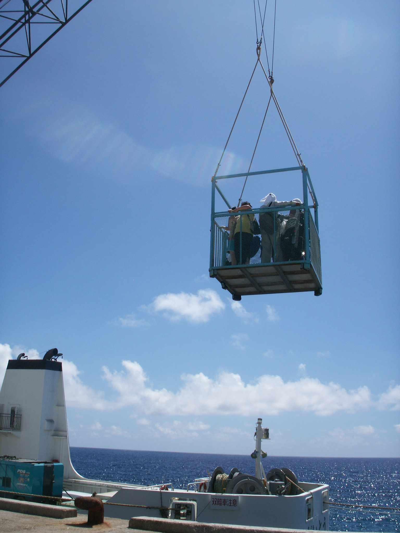 The West Port in Minamidaito Village in Okinawa Prefecture, Japan